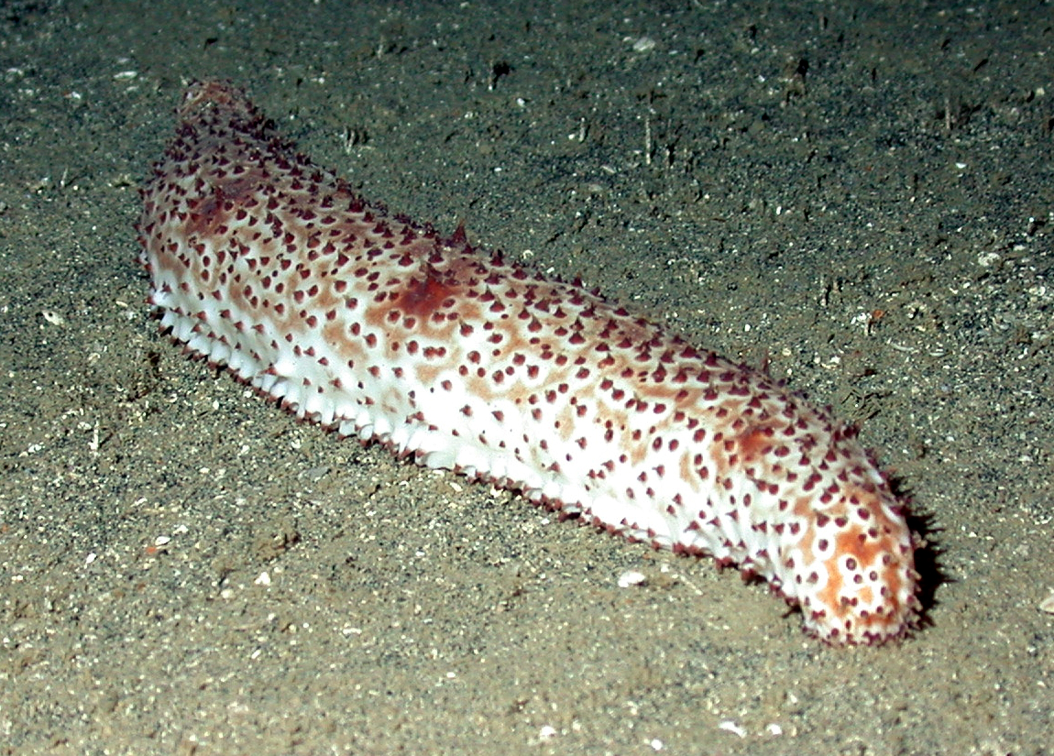 Sea cucumber. A holothurian. Atlantic Ocean, Southeast U.S. shelf/slope area.